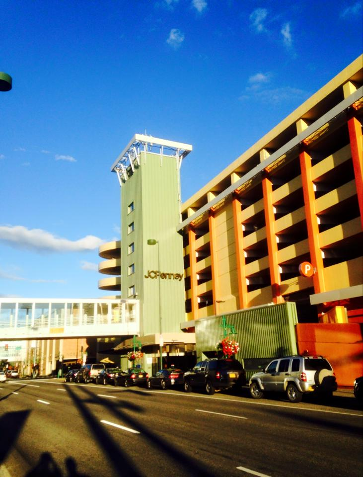 6th Avenue in downtown Anchorage, Alaska.